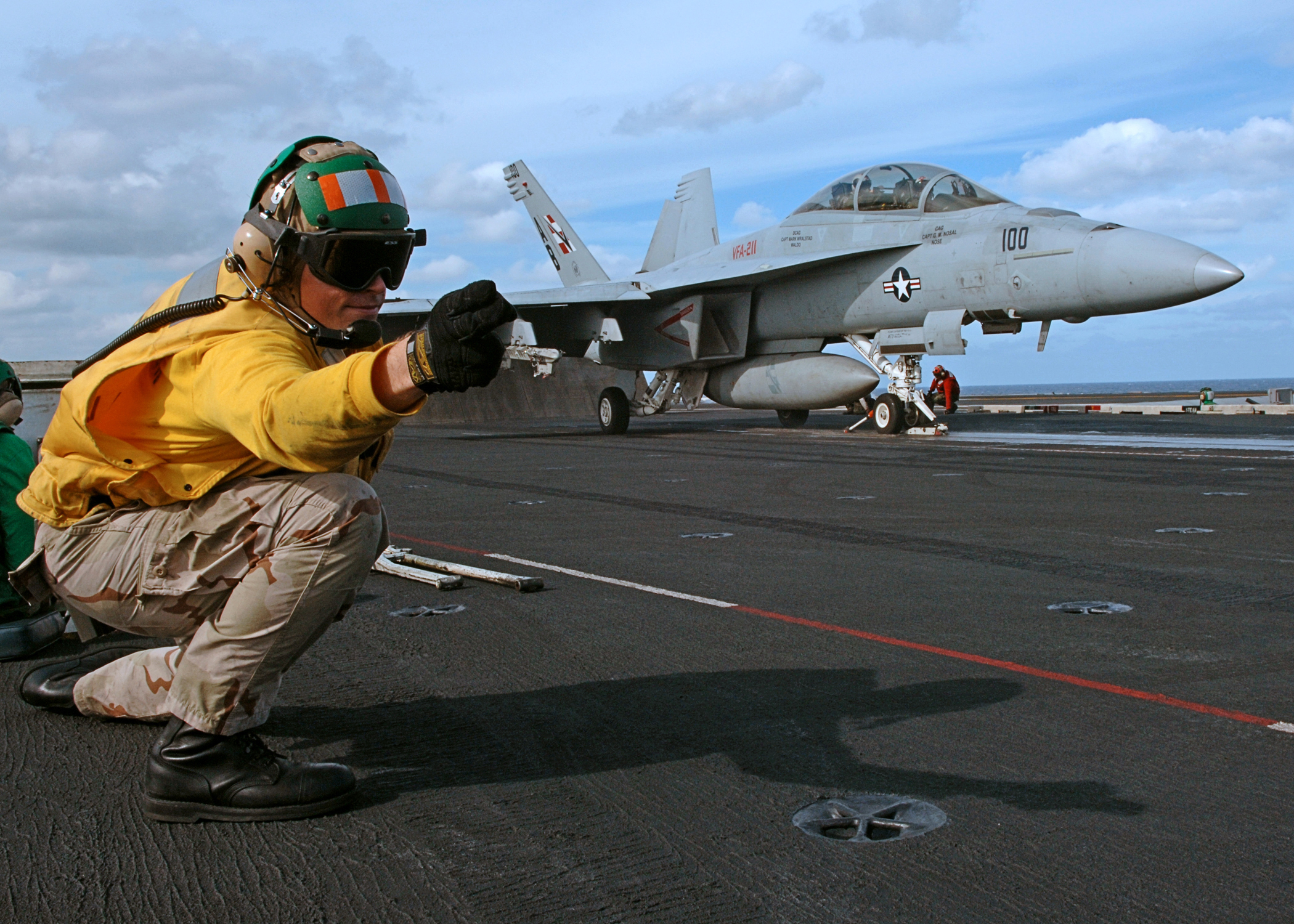 Atlantic Ocean (Nov. 20, 2005) - U.S. Navy Lt. Sean McCarthy, a "Shooter," gives the signal to launch an F/A-18F Super Hornet assigned to the "Checkmates" of Strike Fighter Squadron Two One One (VFA-211) from the flight deck of the nuclear-powered aircraft carrier USS Enterprise (CVN 65). Enterprise and embarked Carrier Air Wing One (CVW-1) are currently underway conducting a squadron flyoff after completing the Tailored Ship's Training Availability (TSTA). U.S. Navy photo by Photographer's Mate 3rd Class Rob Gaston (RELEASED)